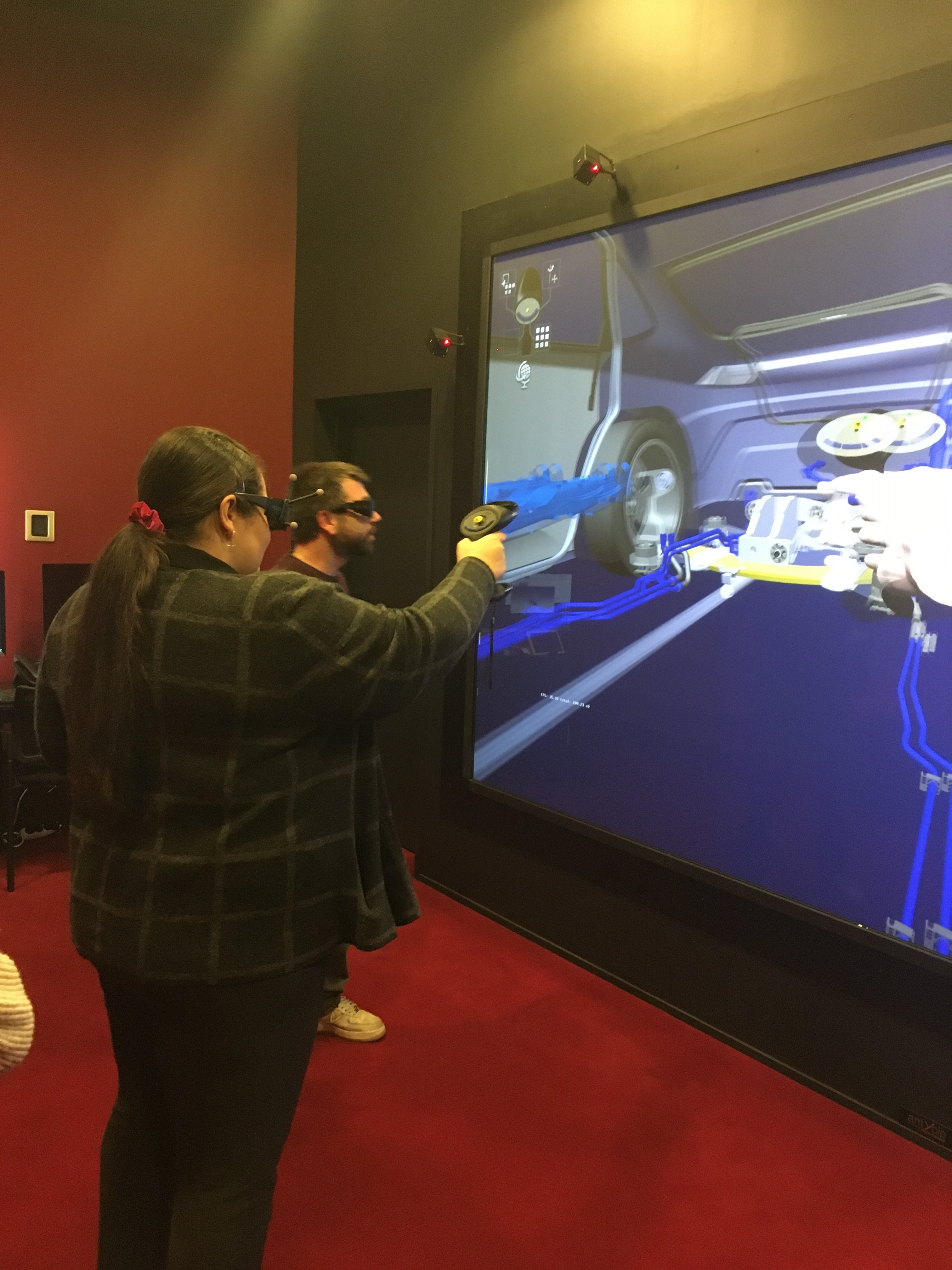 Photo of woman using 3D room in Hutchinson 507 Fab House